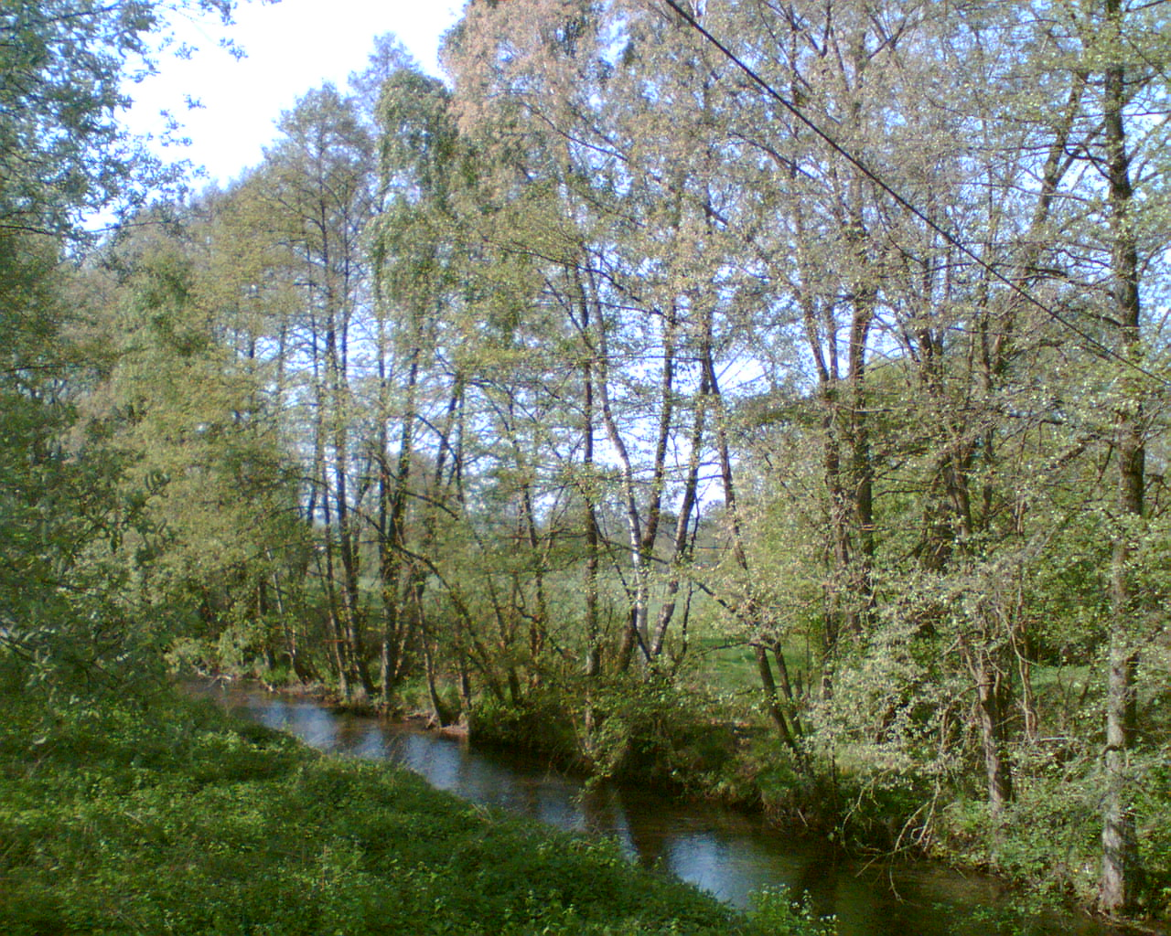 Ilme near Dassel, Germany